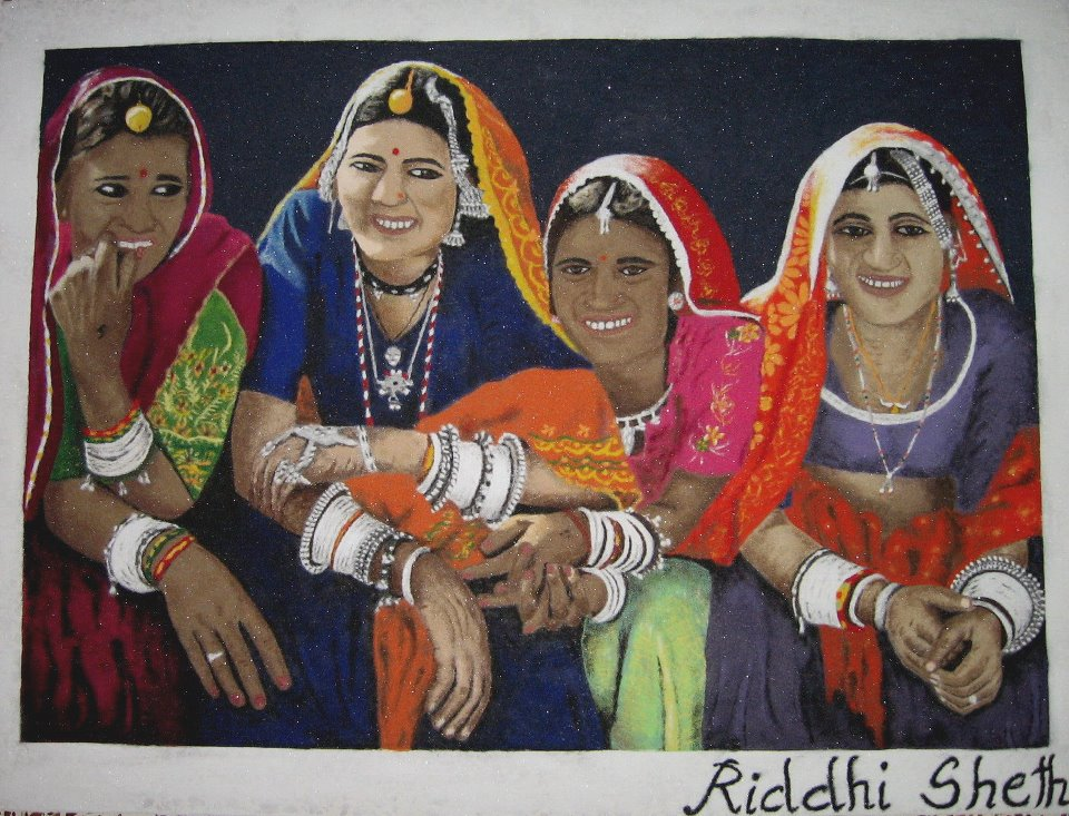 rangoli i made at my residence at diwali 2010